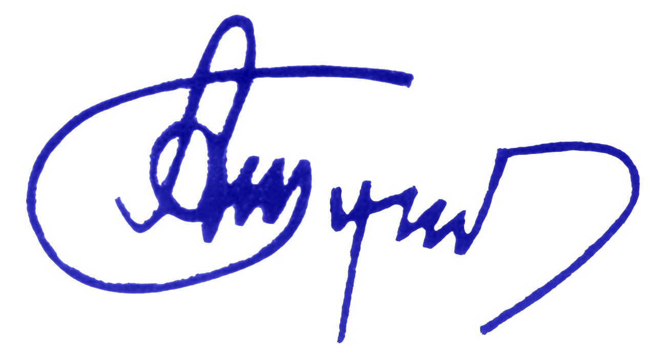 Sign of Andrey N. Tupolev